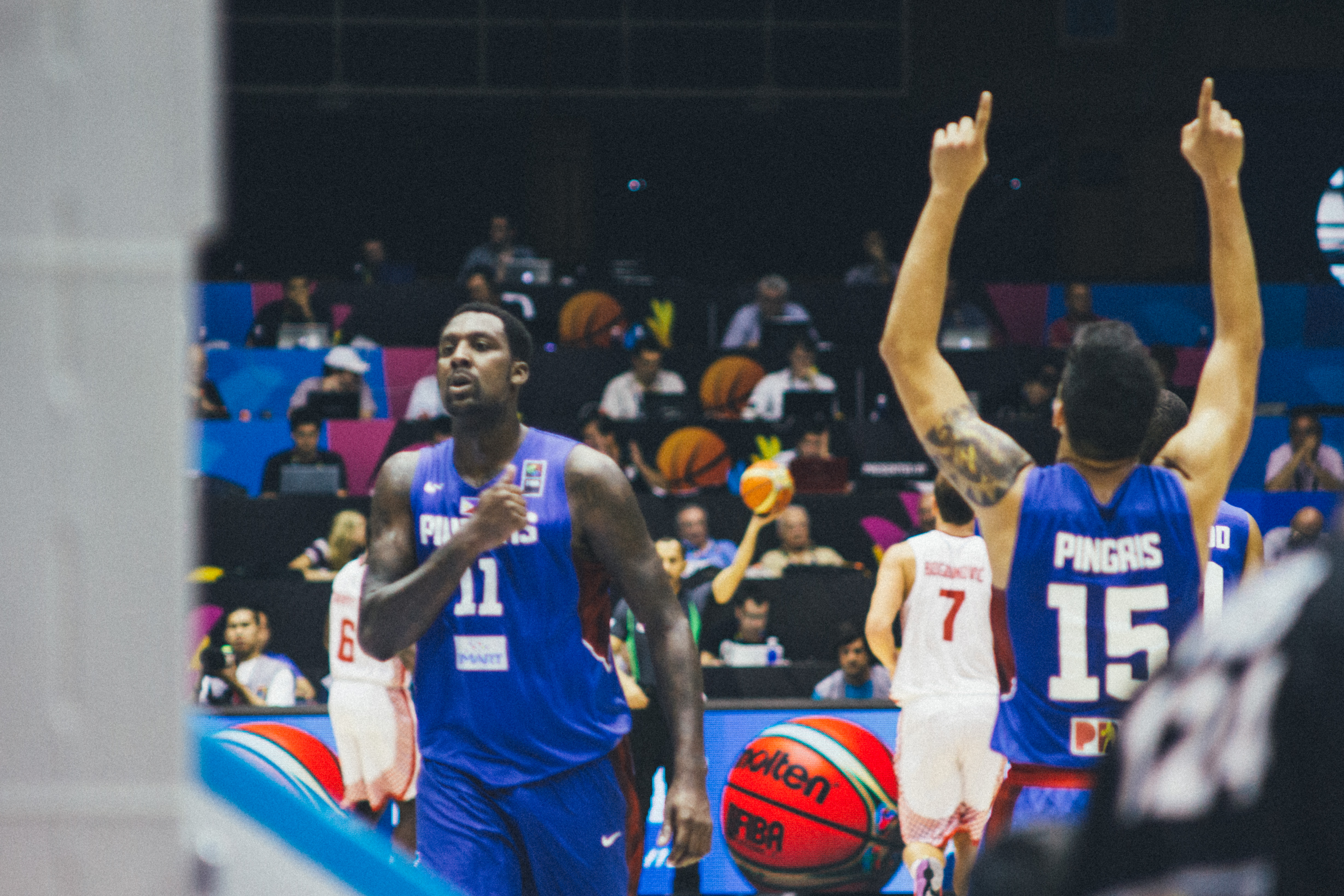 Andray Blatche Croatia and Philippines match at the FIBA Basketball World Cup 2014-08-30